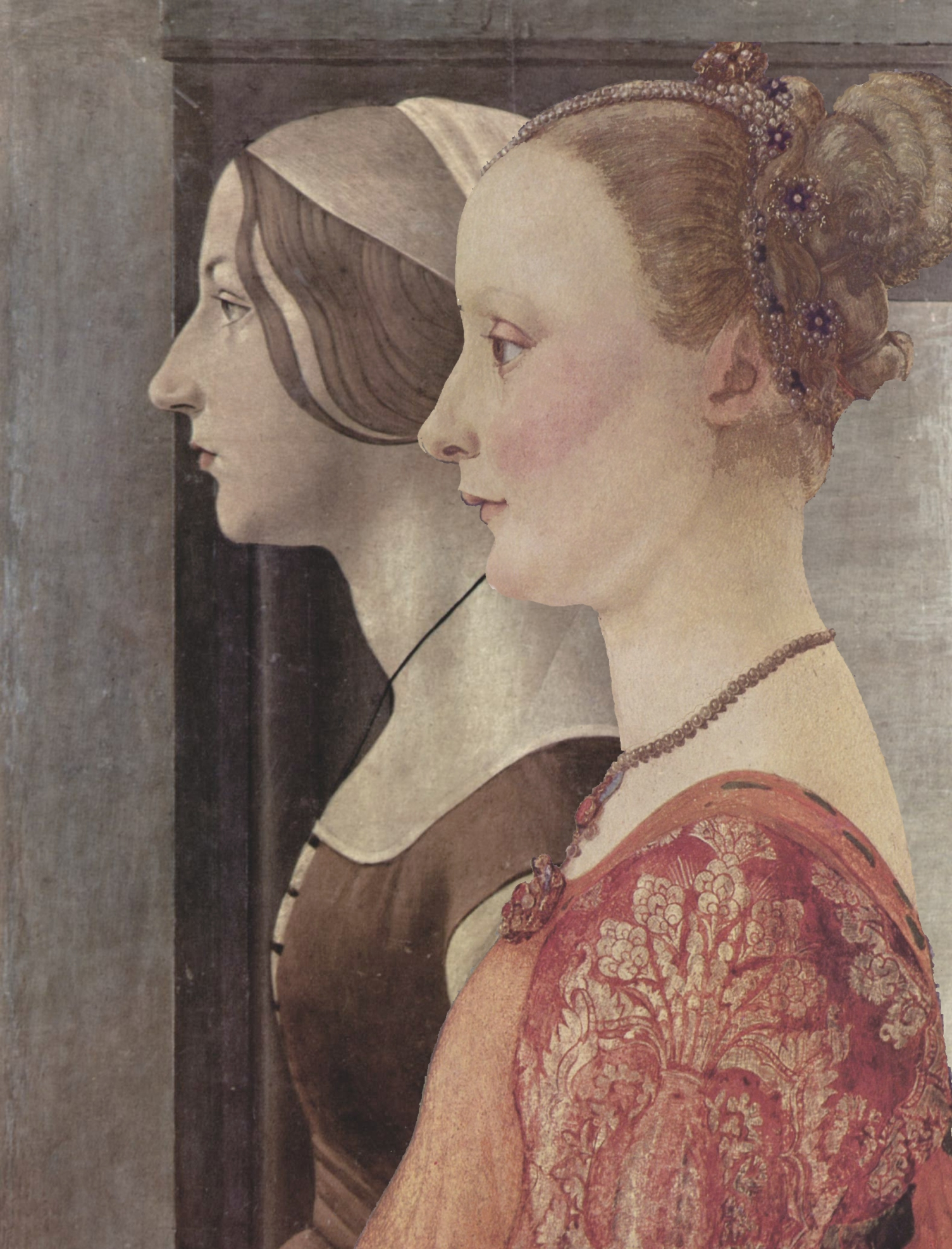 A pastiche created by the user, by combining elements of two PD-art files, in Photoshop, in order to illustrate the term "pastiche" and for use in Wikipedia:art forgery